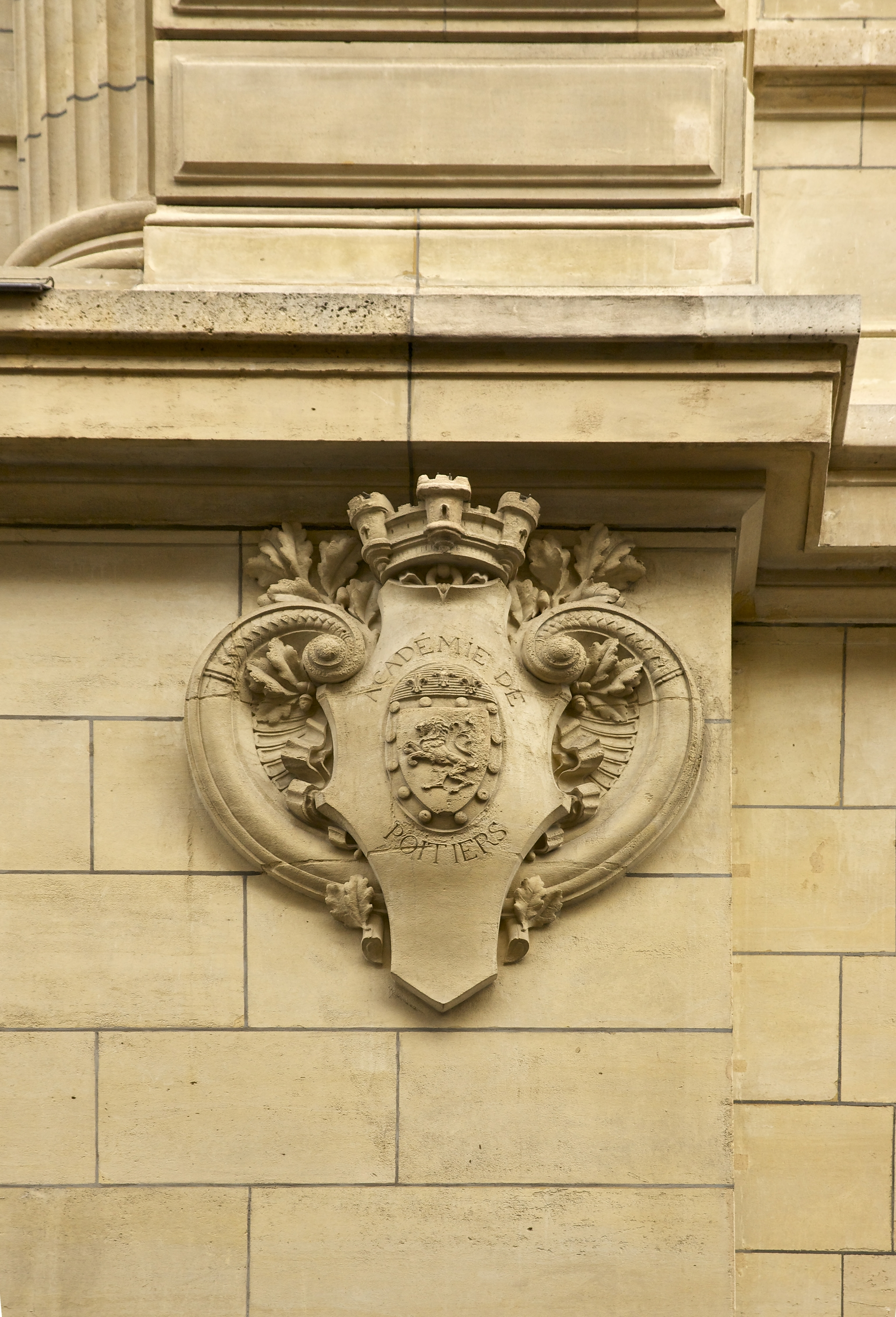 The CoA of the Academy of Poitiers, sculpted on a wall of the Sorbonne in Paris.